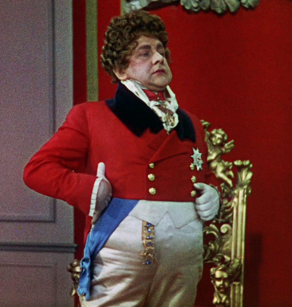 I believe this to be Olaf Hytten, isolated from the public domain film Becky Sharp